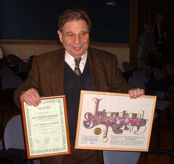 Dr.Tibor Vamos "The educational scientist of the year" (Club of Scientific Journalists, Hungary), 2005